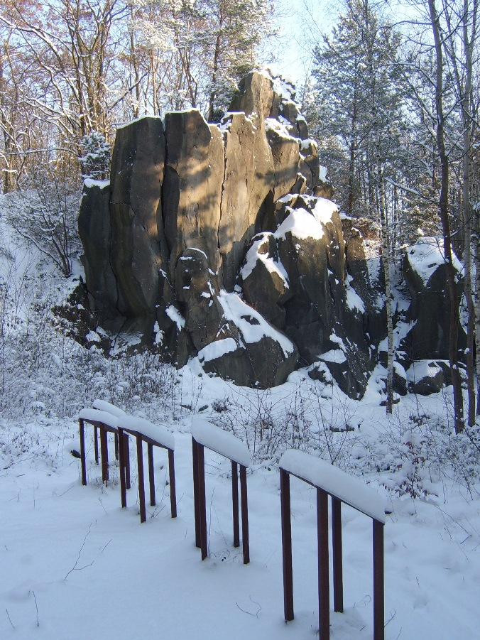 Kottenheimer Winfeld